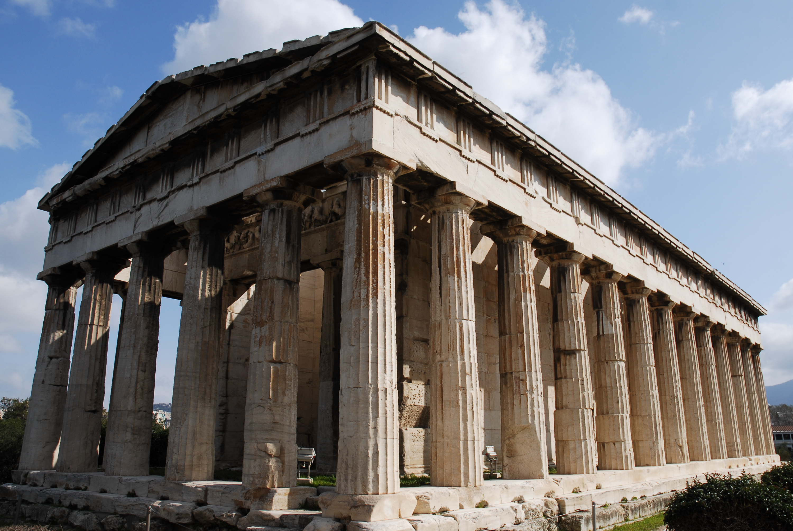 Parthenon, Athenian Acropolis (3/4 perspetive, facade), Athens cityscape. Athens, Greece.